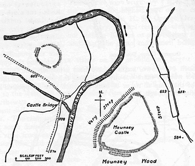 Map of earthworks at Mounsey Castle, Somerset, England.